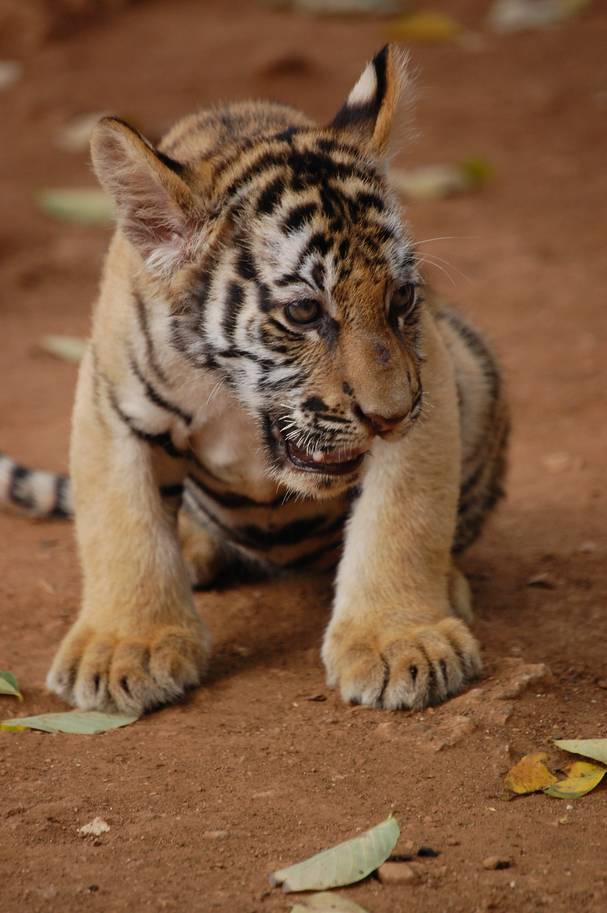 Tiger cub, about 8 weeks old, Thailand